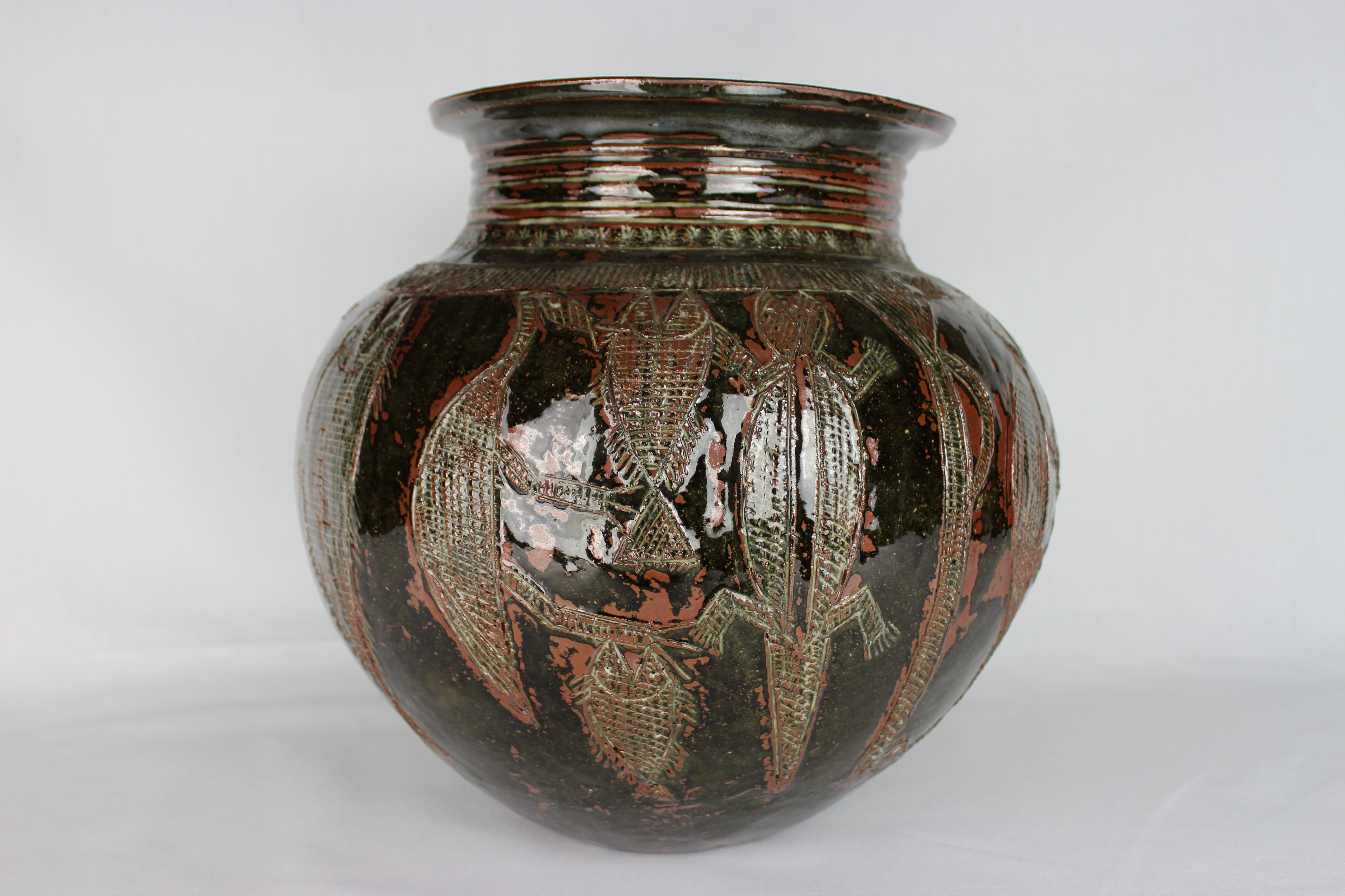 Large hand built pot with rim, incised and inlaid pattern in red slip with transparent glaze. From the W.A. Ismay Studio Ceramics Collection at York Art Gallery